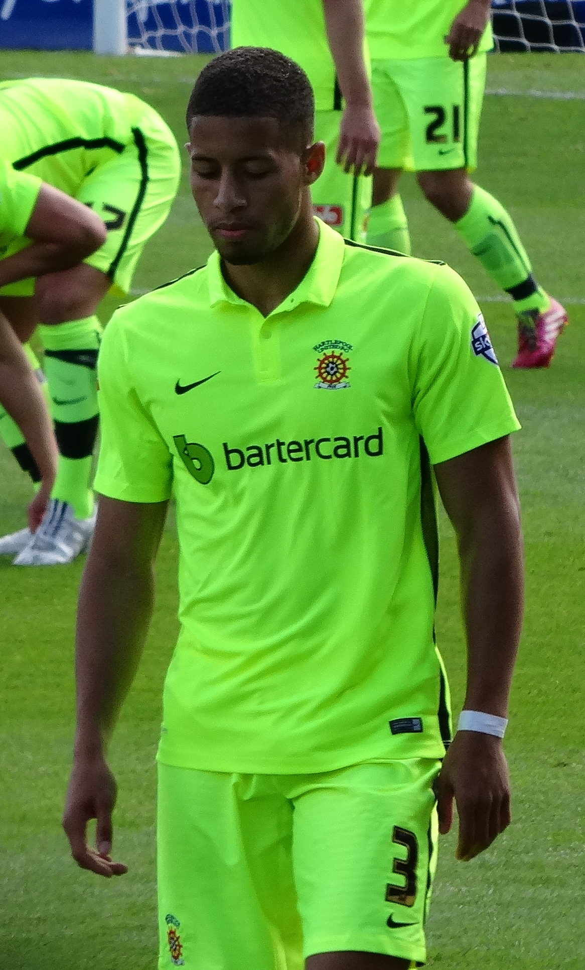 Jake Carroll playing for Hartlepool United against York City at Bootham Crescent, York on 15 August 2015